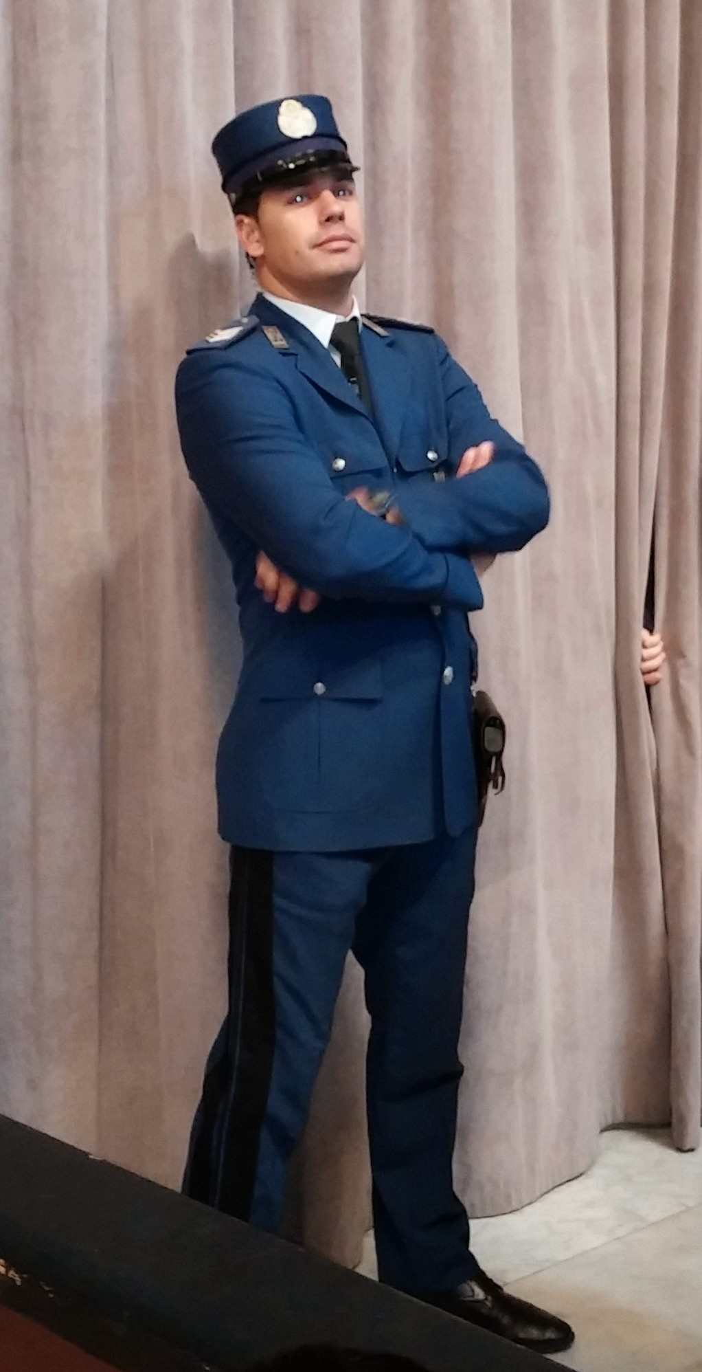 A police officer of Vatican City in Saint Peter's Basilica after a Papal mass.